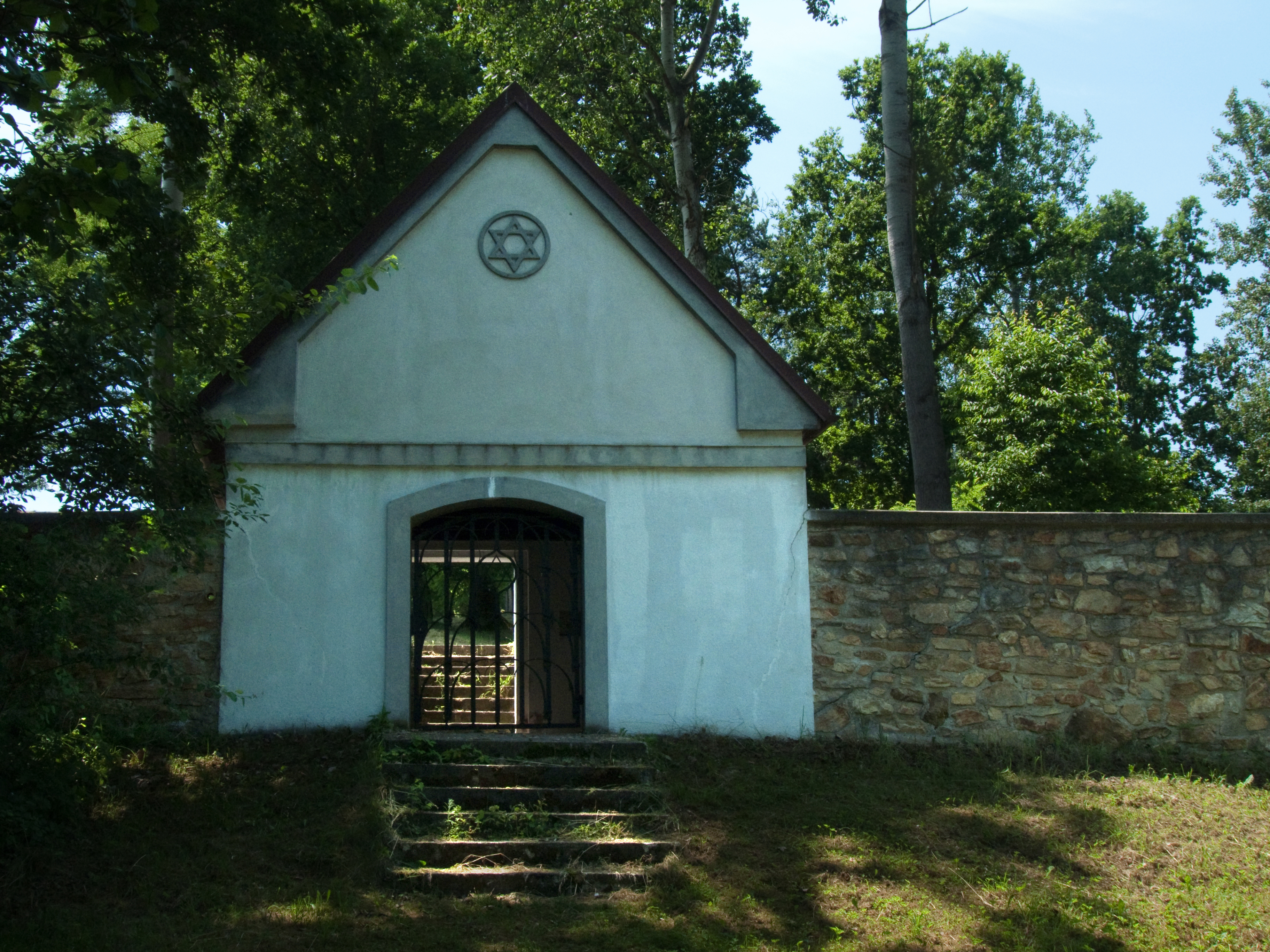 Entrance gate to the Jewish cemetery in Trhový Štěpánov, Benešov district, Czech Republic, erected in 1936